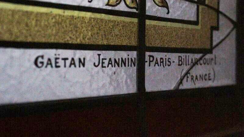 Gaetan jeanninn vitral